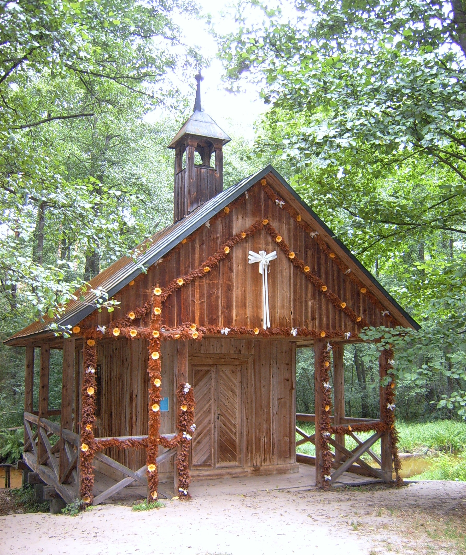 Górecko Kościelne; chapel "on water"